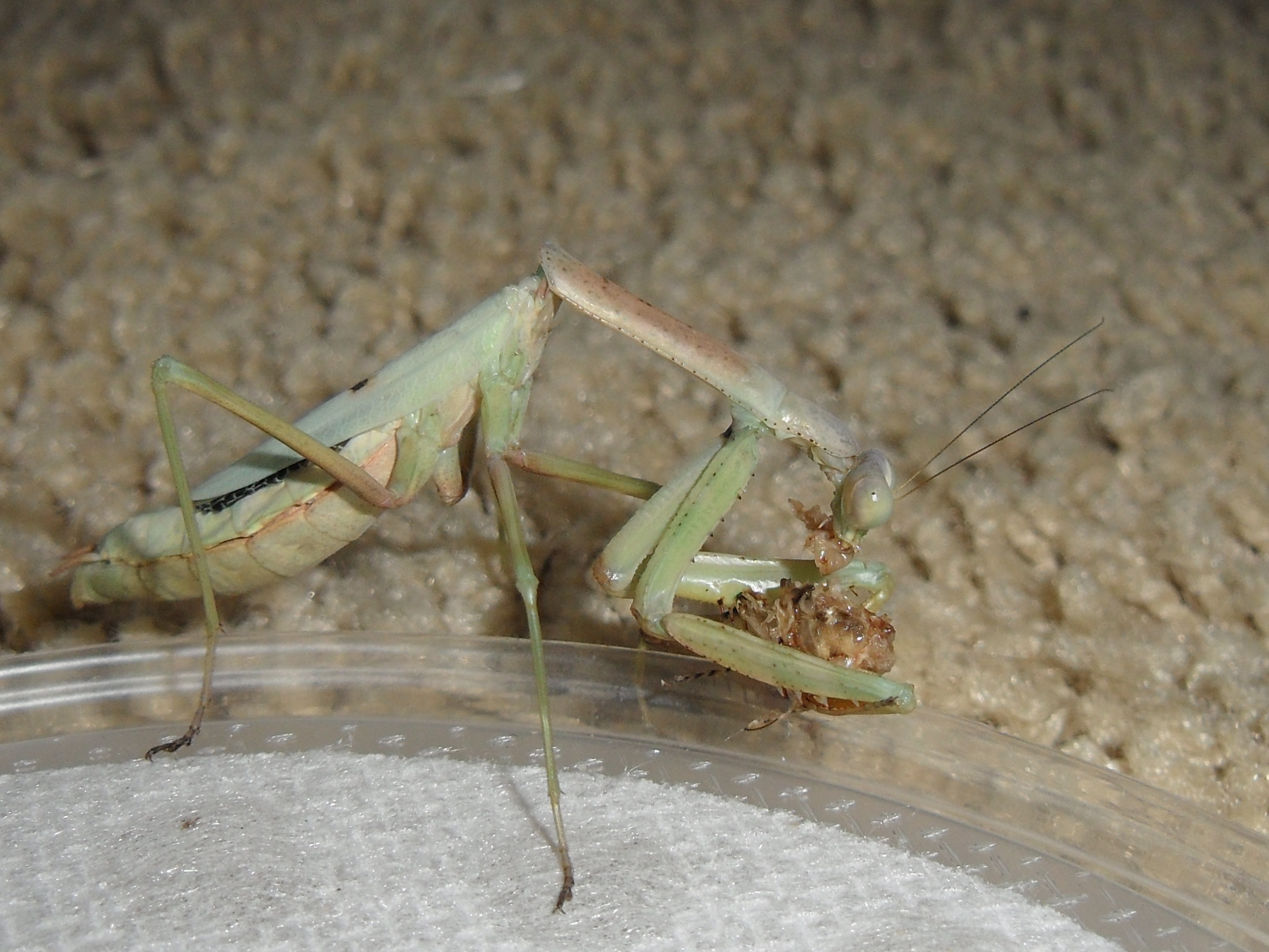 Adult female Stagmomantis carolina eating.